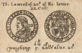 Engraving of the Laurel of James I of England.